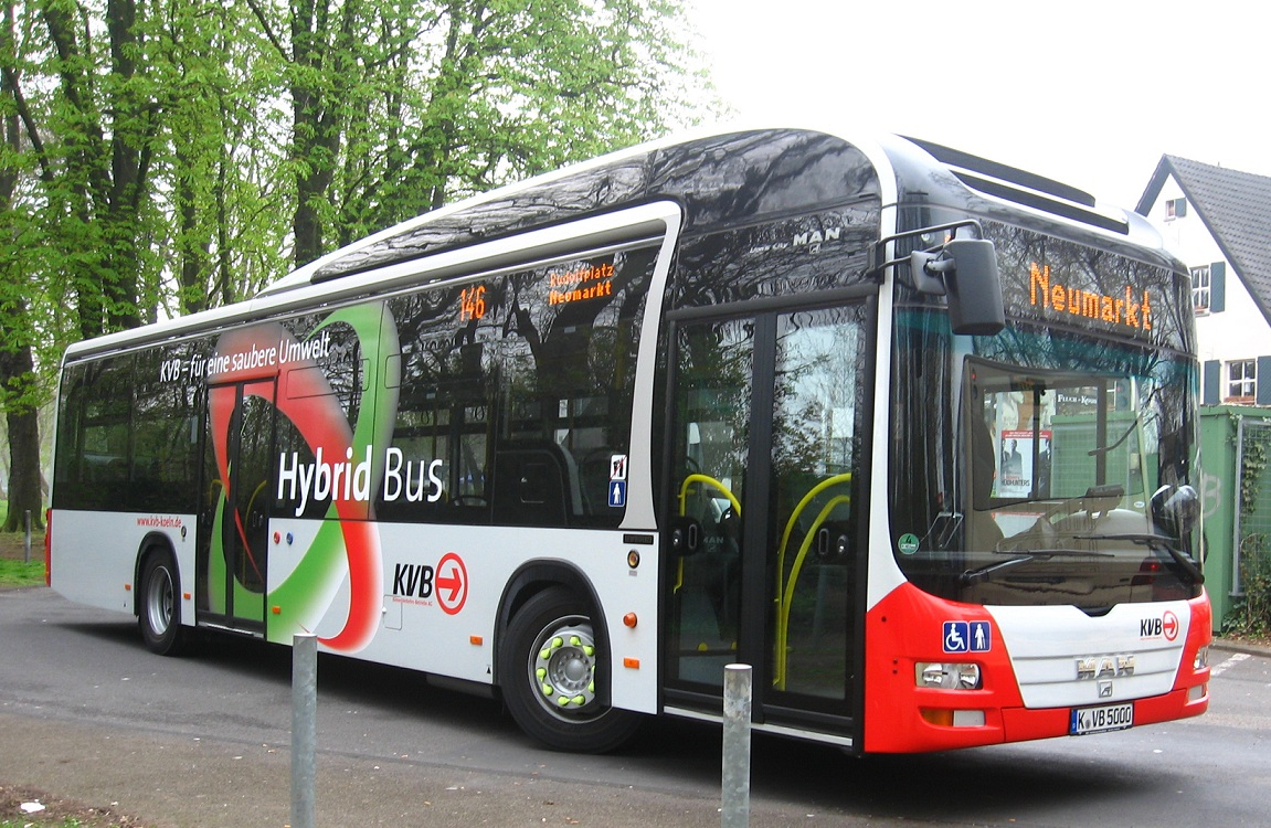 MAN Lion's City Hybrid bus (#5000, reg. K-VB 5000) in Cologne, Germany. Built 2012, Kölner Verkehrs-Betriebe AG operator.